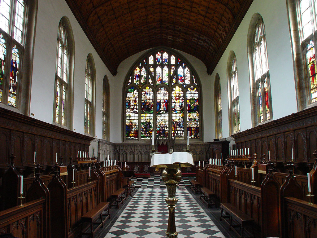 Inside Wadham College Chapel, Oxford, looking toward the east window